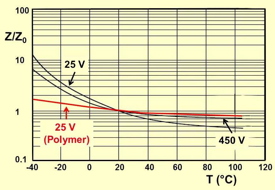 electrolytic capacitor, typical impedance versus temperature